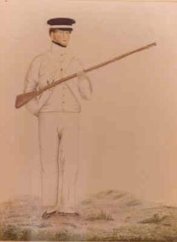 Kadet in het tenue van de Artillerie- en Genieschool te Delft, omstreeks 1820